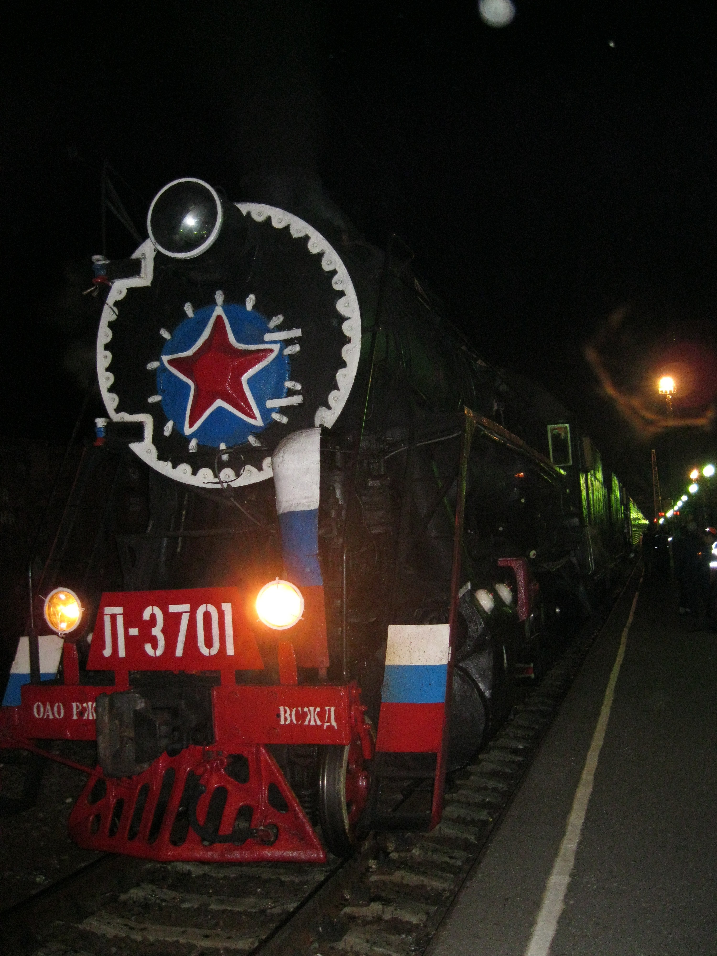 Parovoz on_CBR